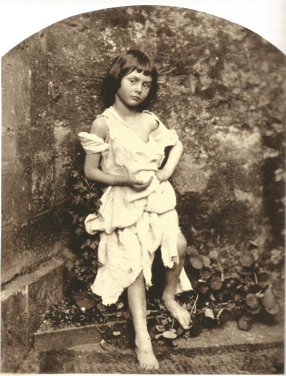 Alice Liddell as the Beggar-Maid, RS2:15.